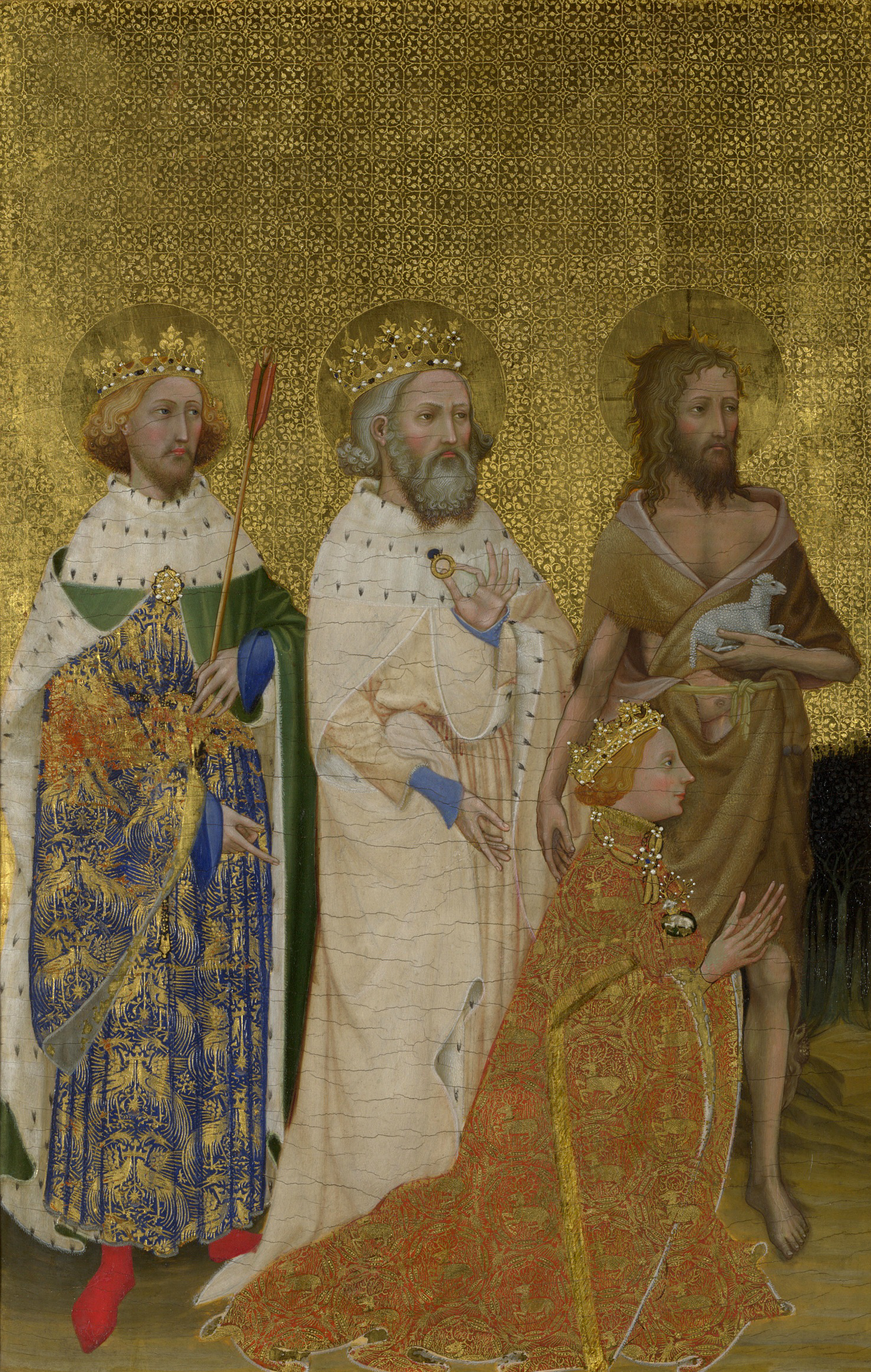 Richard II of England with his patron saints. The Wilton Diptych (c.1395–1399) is a portable altarpiece taking the form of a diptych, painted for King Richard II. This is the left-hand panel.